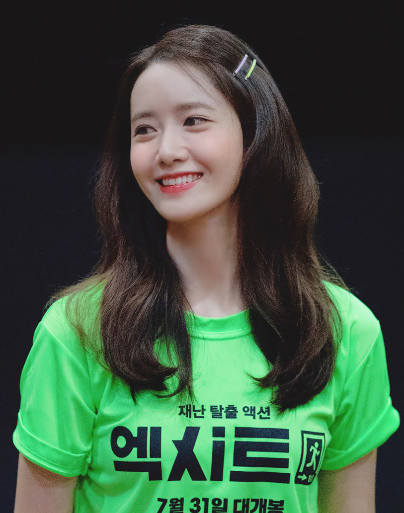 Im Yoon-ah at Exit Stage Greeting on August 3, 2019.